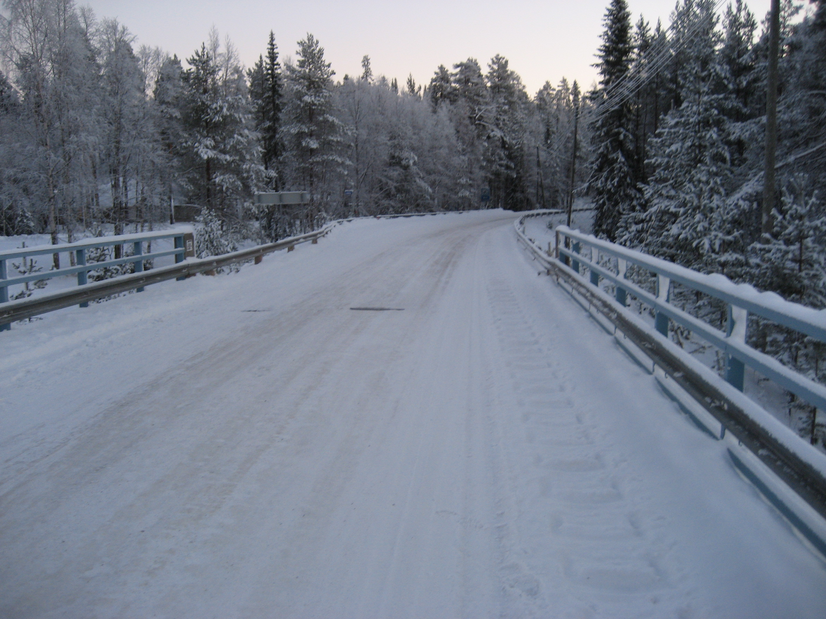 Snowy Connecting road 8693 (Liikasenvaarantie) in Oulanka National Park, Kuusamo, Finland, looking south at the Oulankajoki river bridge.